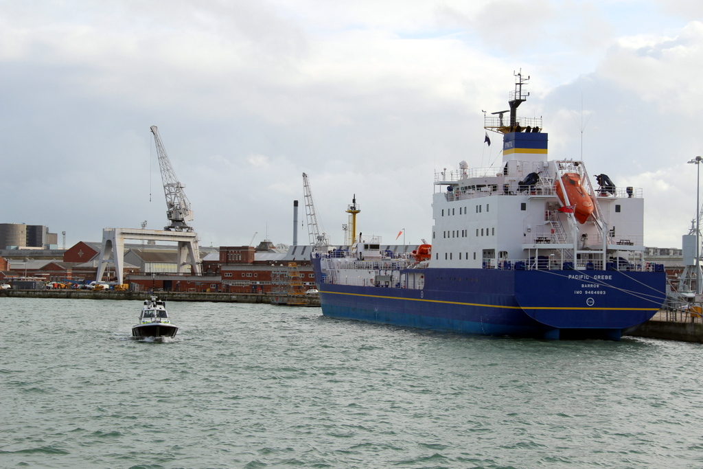 The nuclear transport vessel Pacific Grebe, Portsmouth Dockyard, Hampshire